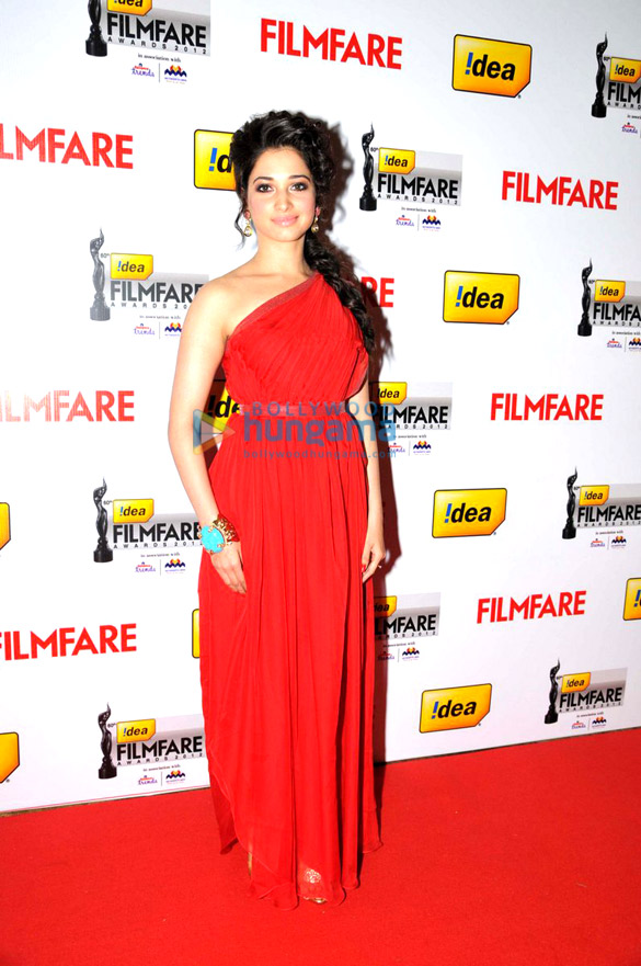 Actress Tamanna at the 60th Filmfare Awards South